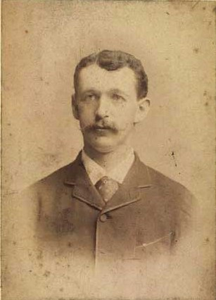 Danish landowner, politician, MP count Mogens Krag-Juel-Vind-Frijs (1849-1923)